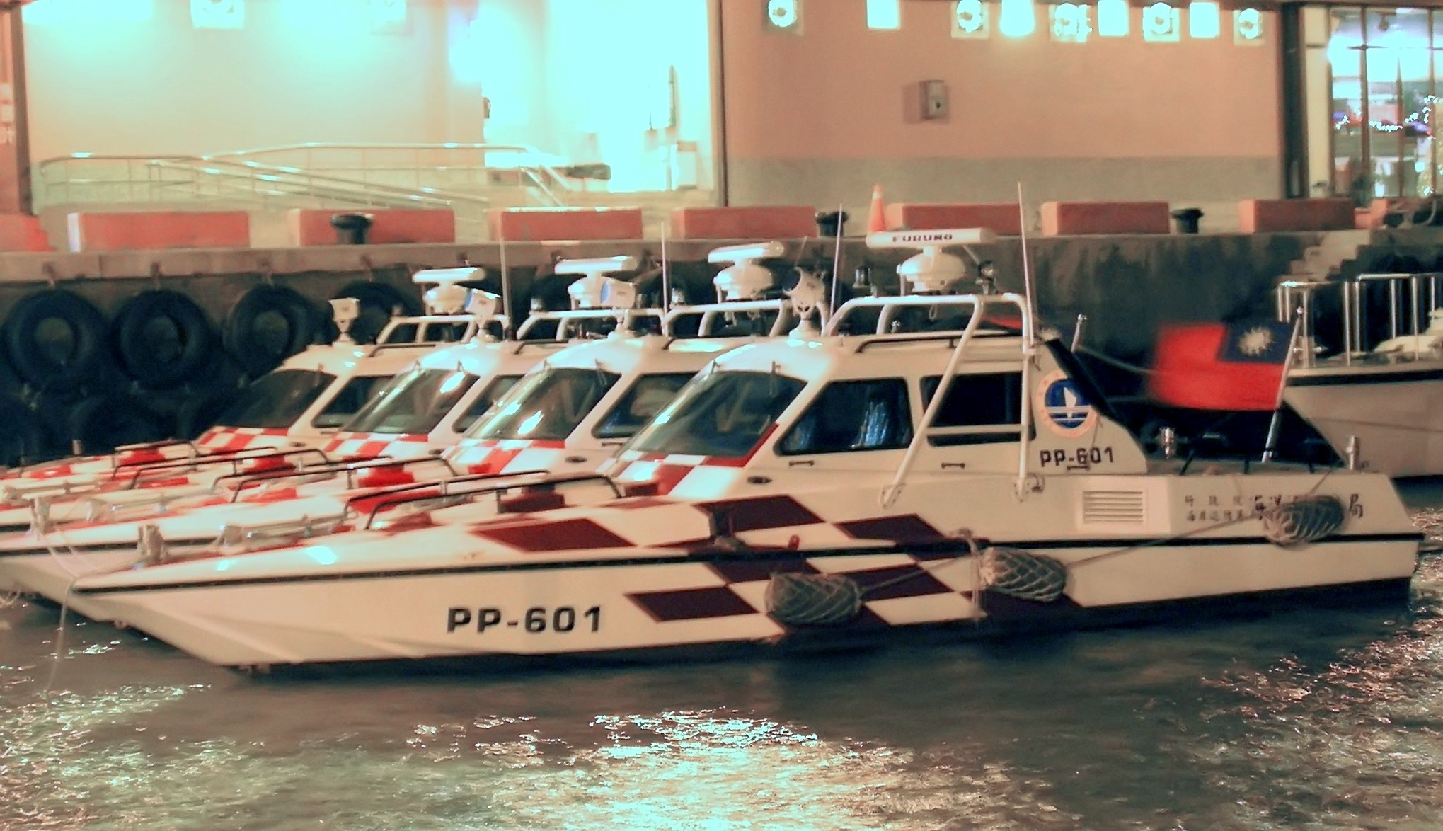 ROC Coast Guard patrol boats in Dansuei Harbor, Taipei County, Taiwan.